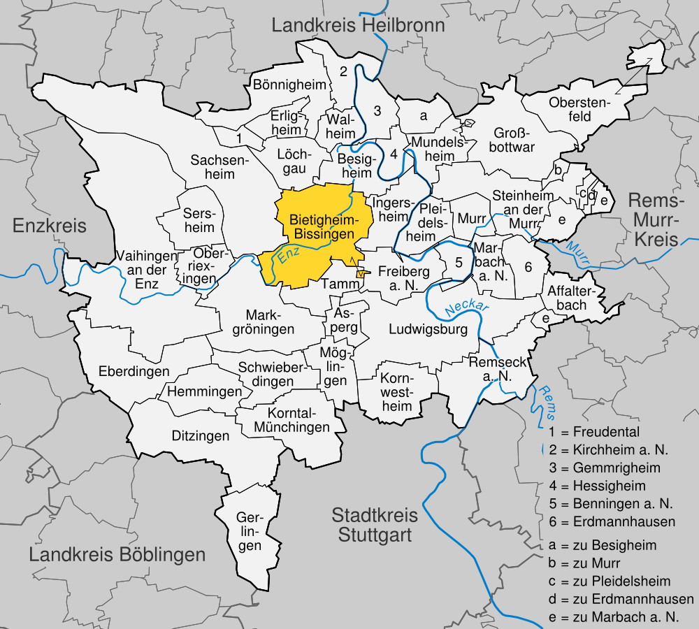 position of Bietigheim-Bissingen within distict of Ludwigsburg, Baden-Württemberg, Germany